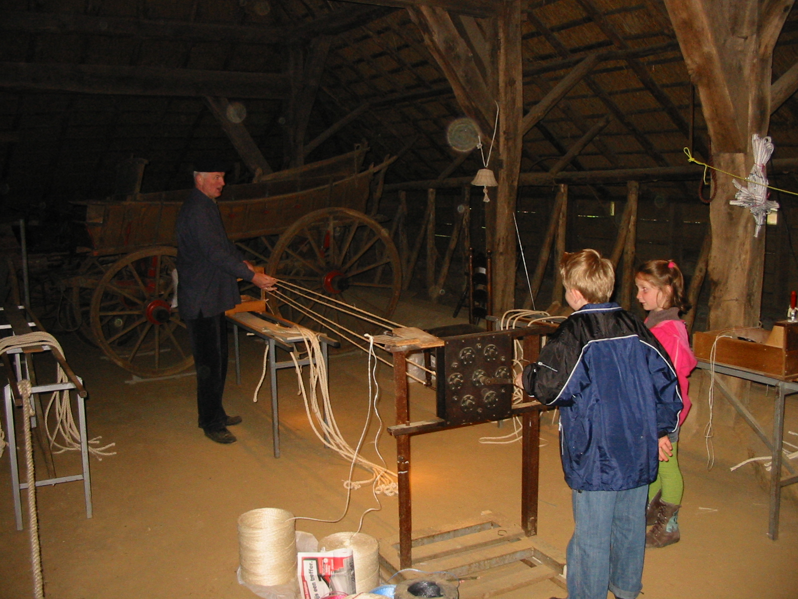 Ropewalk in Arnhem musem on sunday 21 May 2006